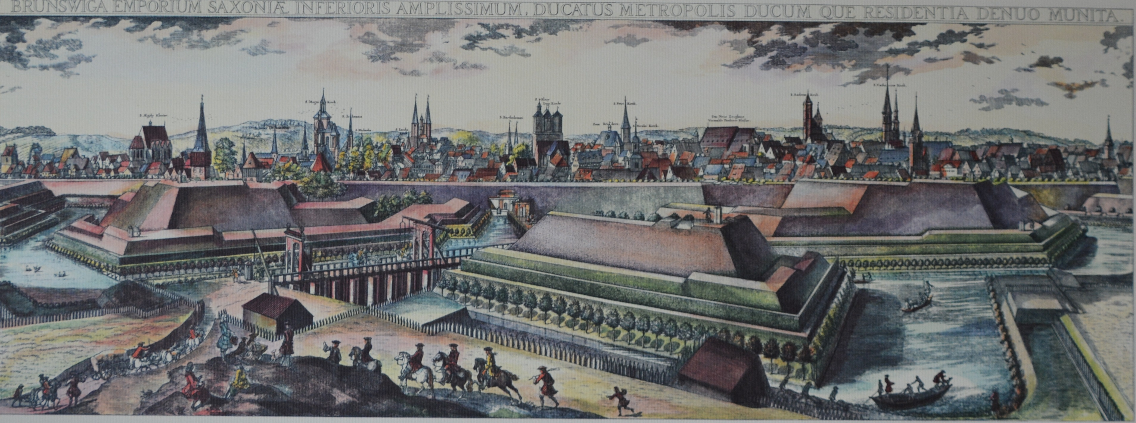 Brunswick 1610, by P. Schenk